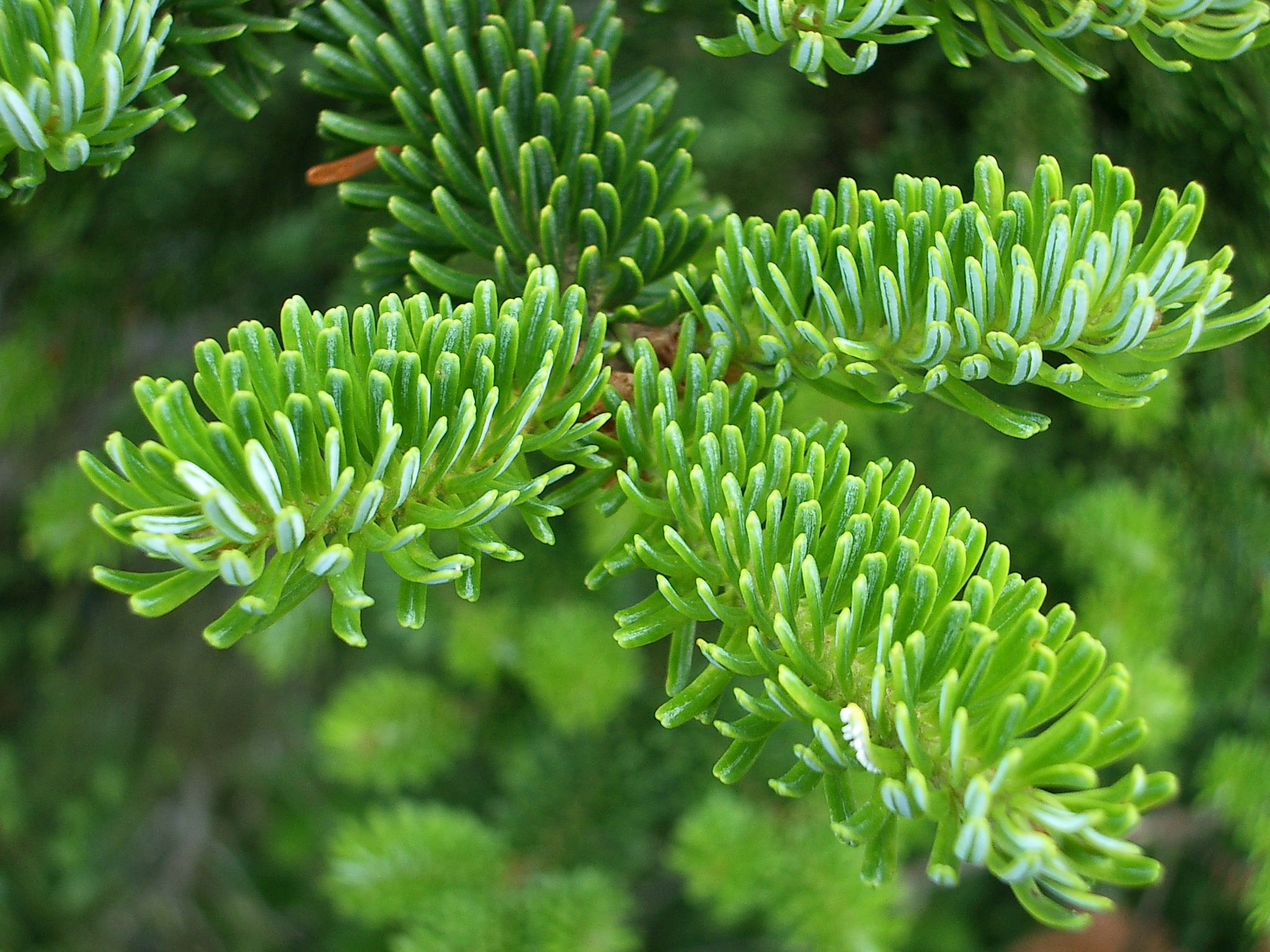 Abies fraseri foliage, Mount Mitchell, North Carolina